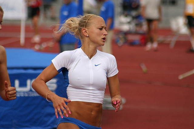 Maris Mägi is an Estonian sprinter who specializes in the 400 metres (photo was taken on July 22, 2006 at Kadrioru stadium, Tallinn, Estonia).